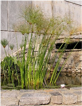 papyrus plant, Cyperus papyrus, in pond